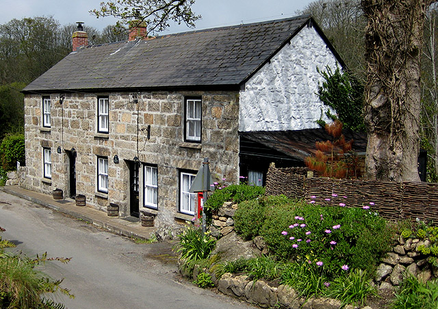 Former post office, Lamorna